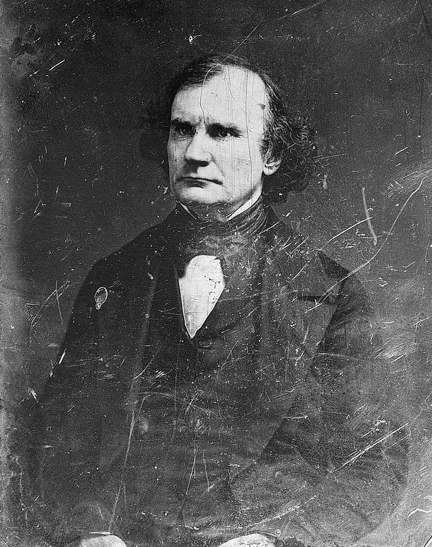 James Murray Mason, Democratic Congressman from Virginia, 1837-1839; Senator, 1847-1861.